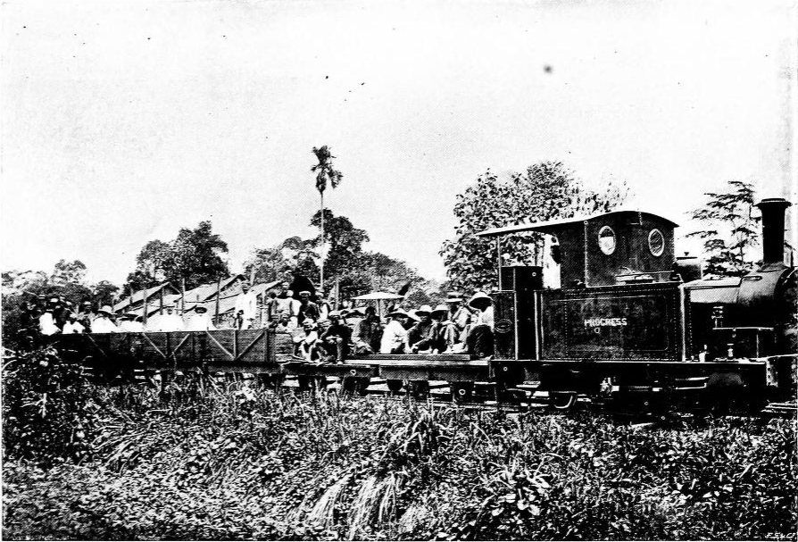 North Borneo Chartered Company: North Borneo Railway; Opening 1898 with W. C. Cowie